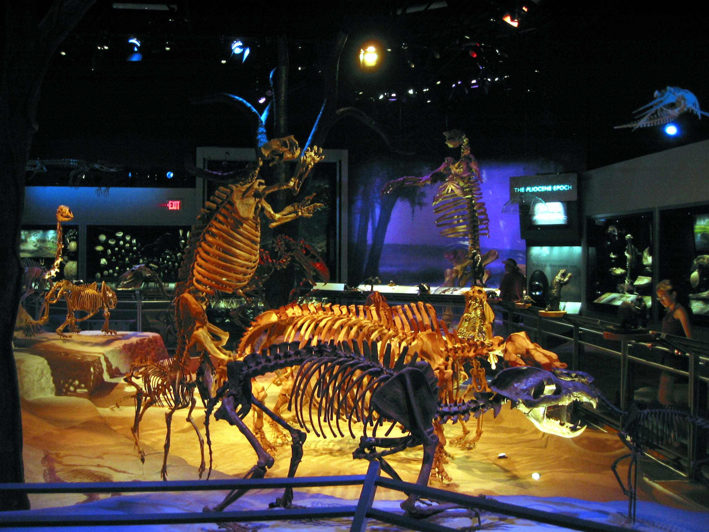 A collection of fossils in the Florida Fossil Hall, Florida Museum of Natural History, Powell Hall.